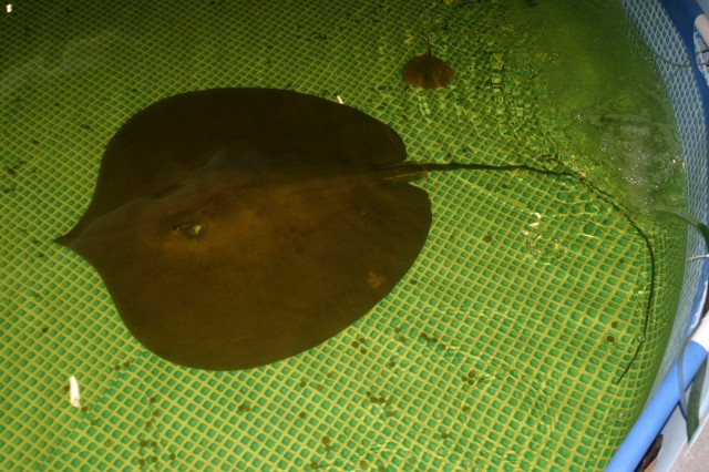 Giant freshwater stingray (Himantura chaophraya)